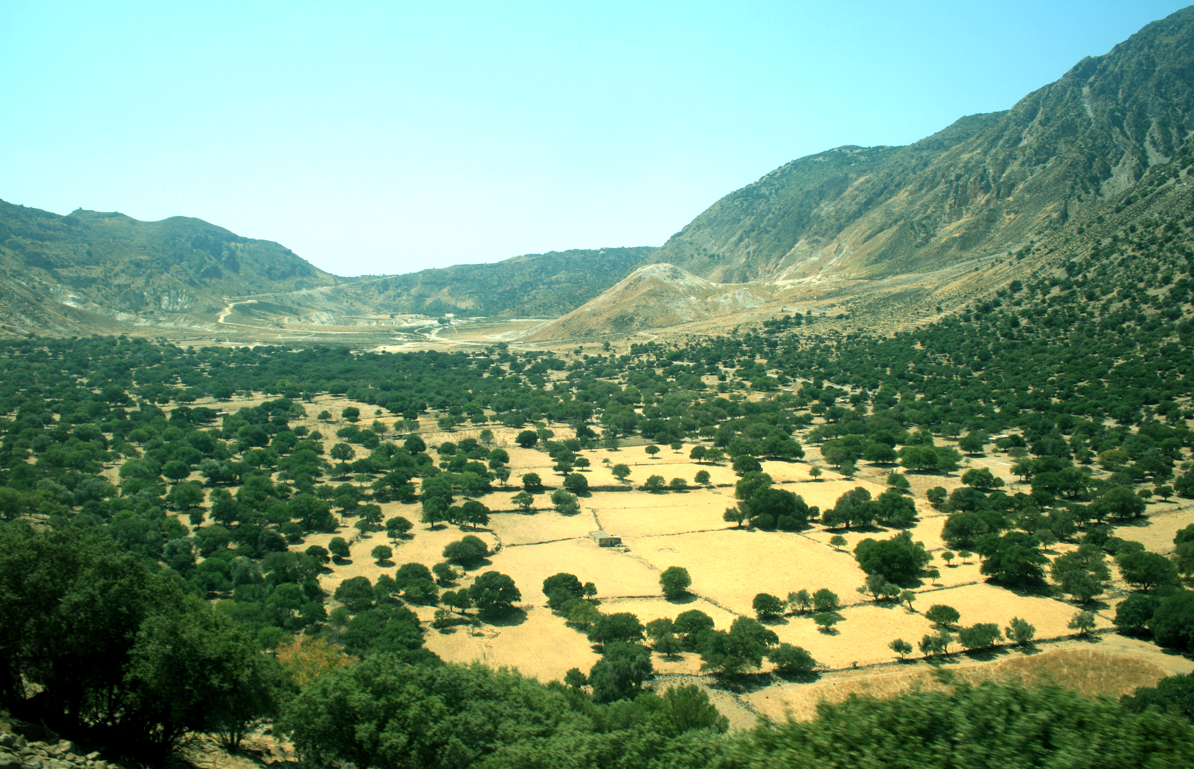 View to inland of Nisyros island (Greece)